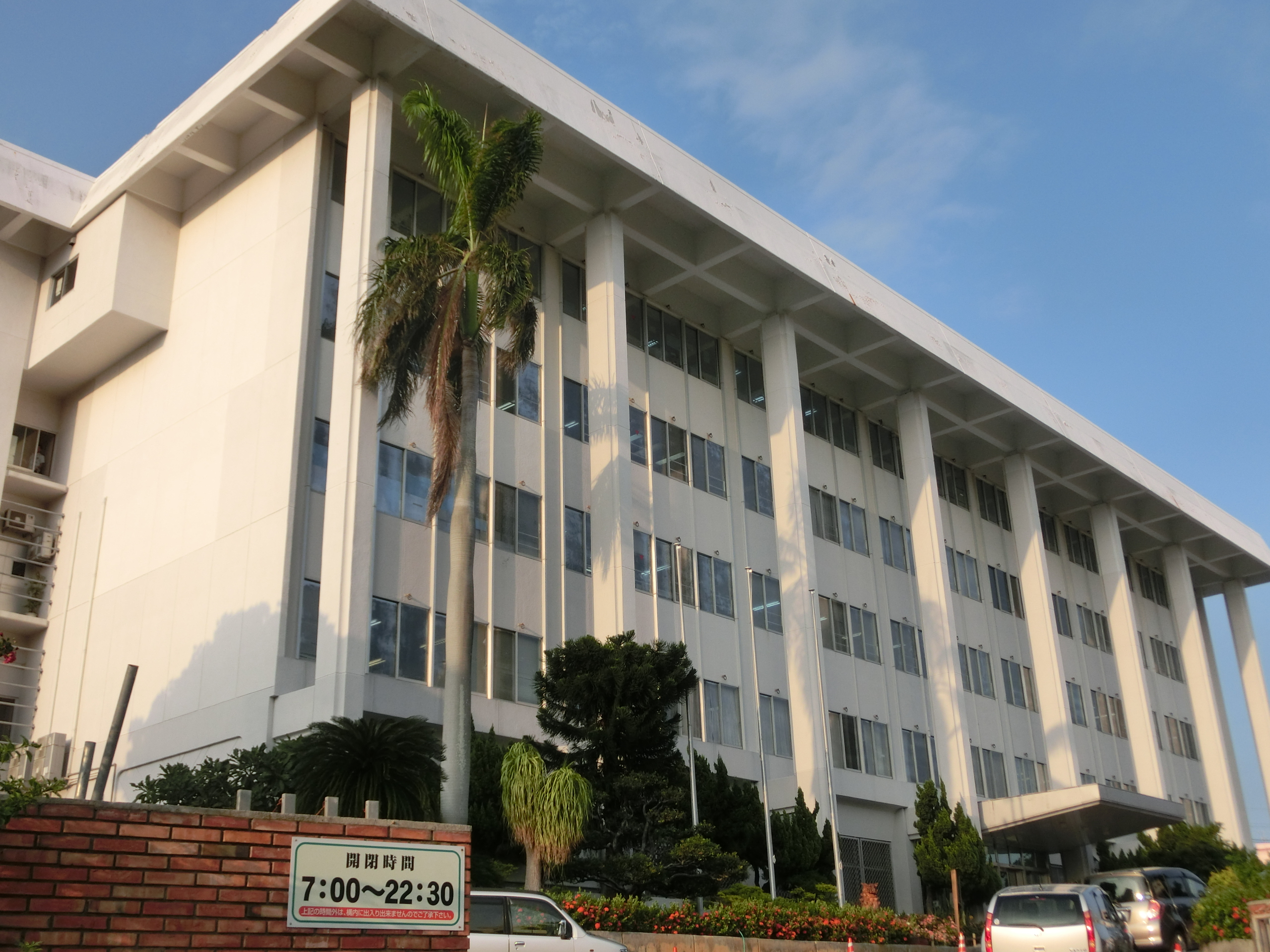 JA Okinawa Headquarters